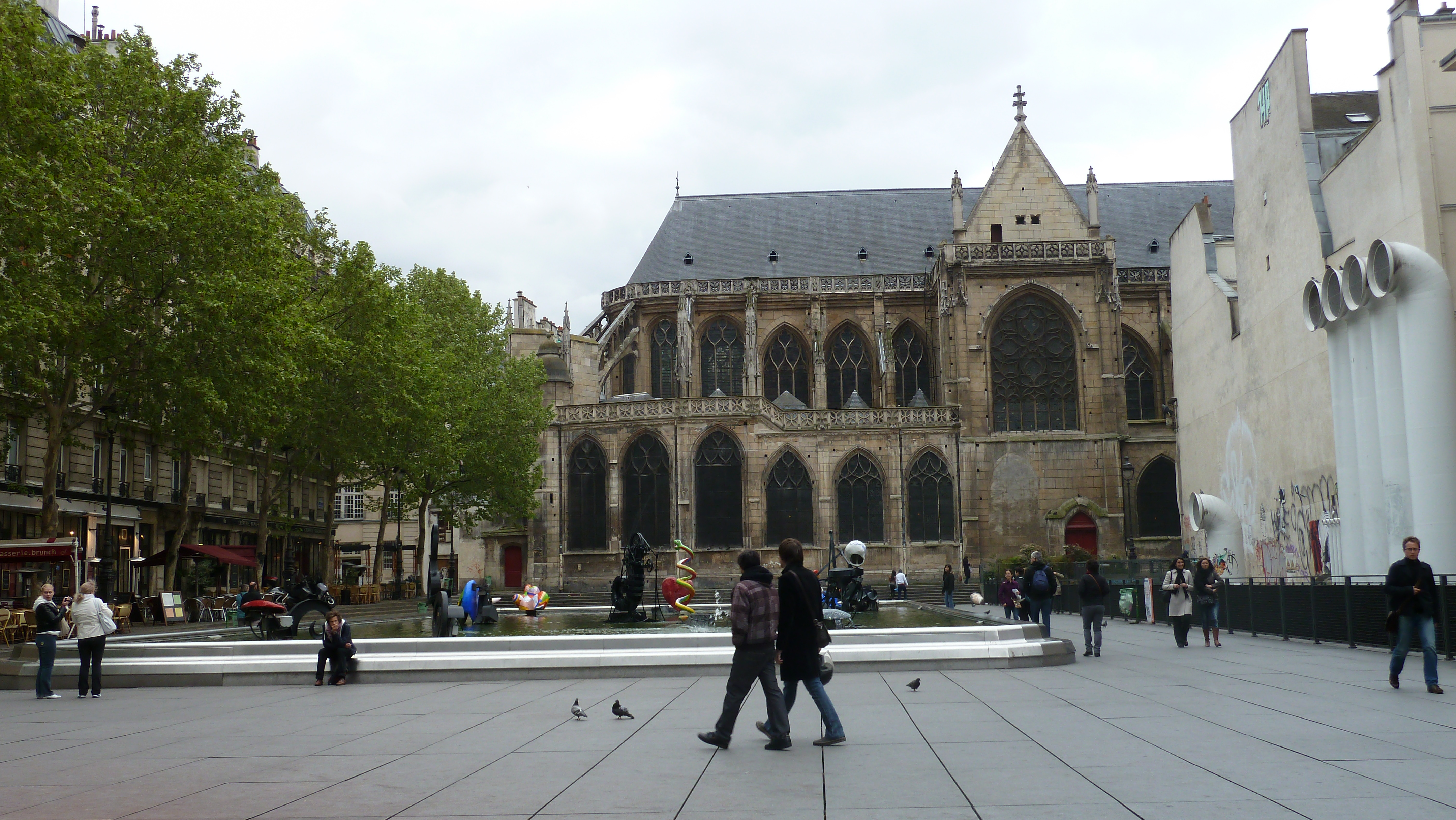 Place Igor-Stravinsky, Paris, France